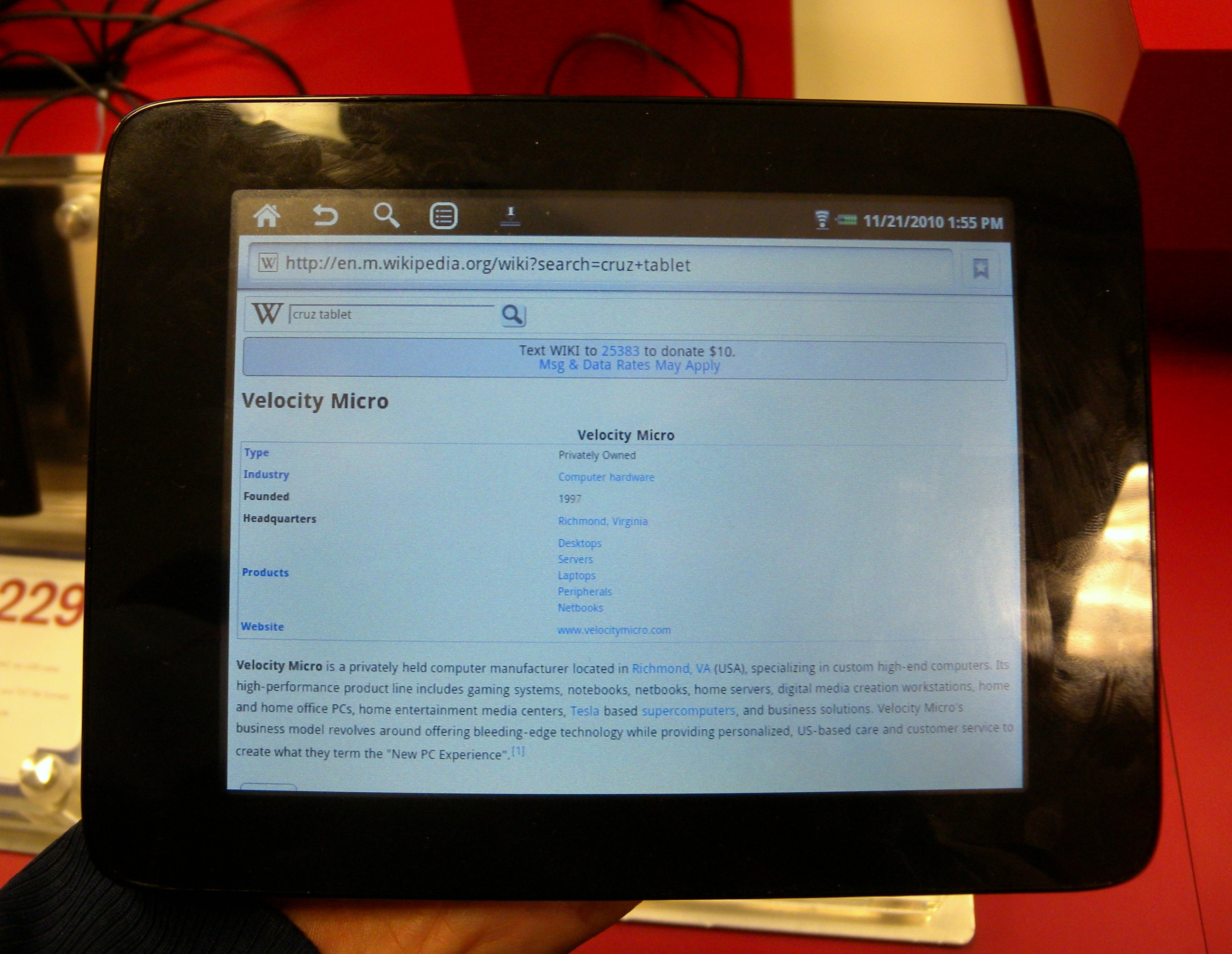 Cruz reader from Velocity Micro showing the Wikipedia article about the corporation.